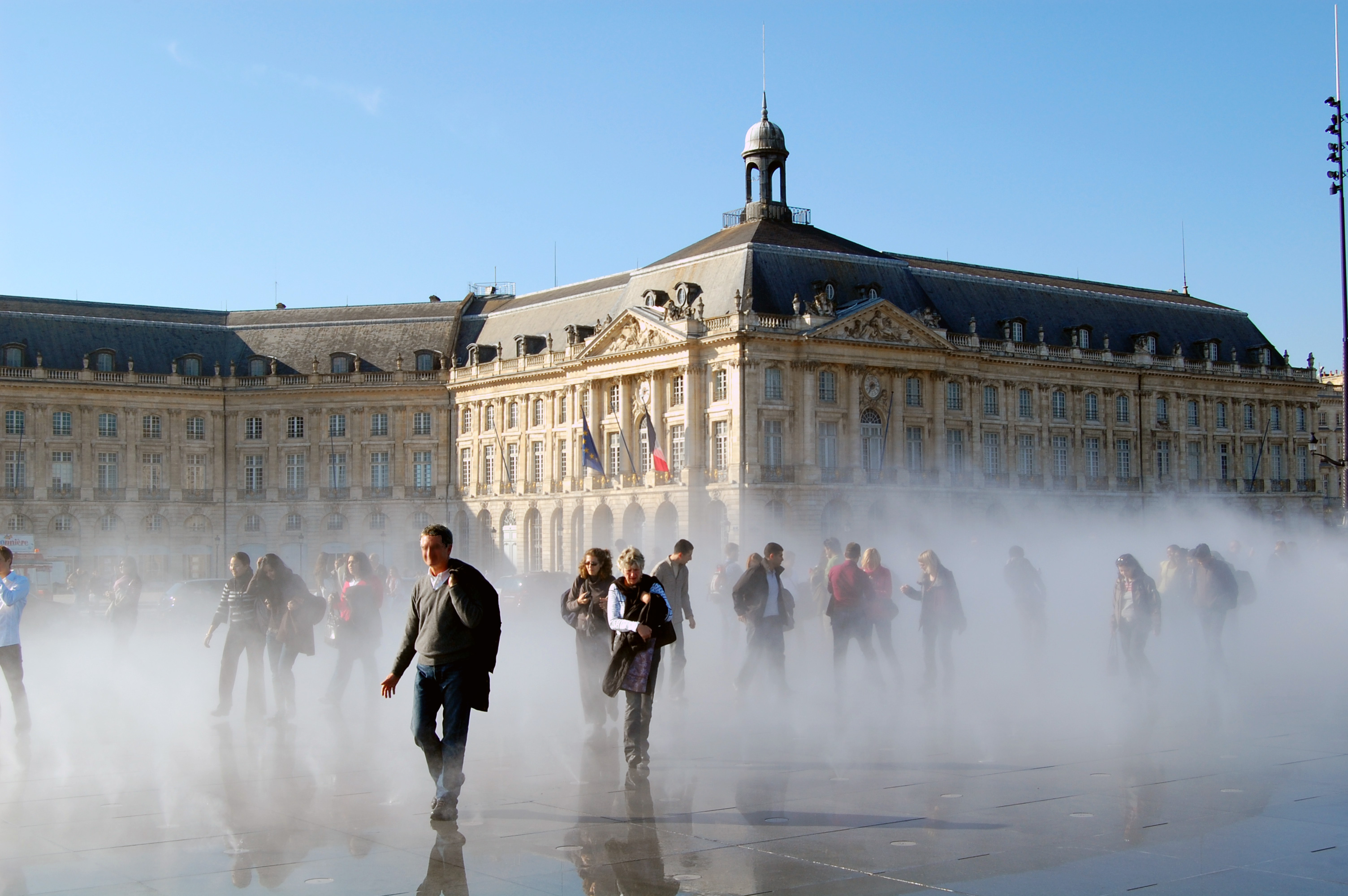 Reflecting pool, quai de la Douane, Bordeaux, France